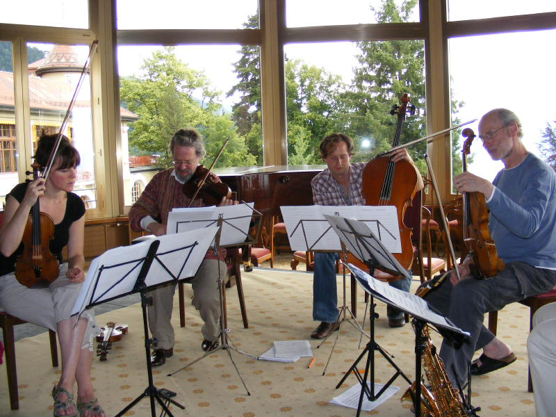 The Fitzwilliam Quartet rehearsing at Mountain House, Caux, Switzerland